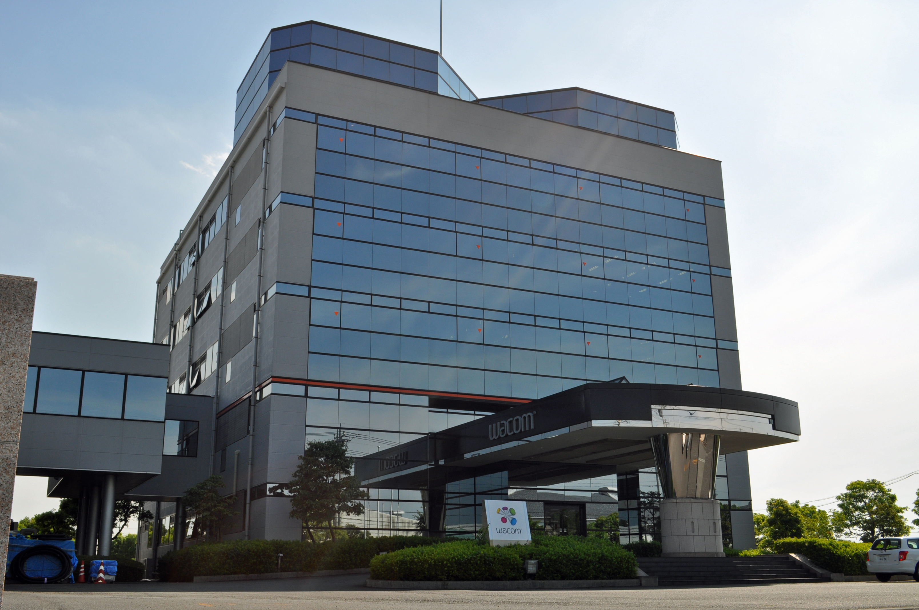 Corporate headquarter of Wacom